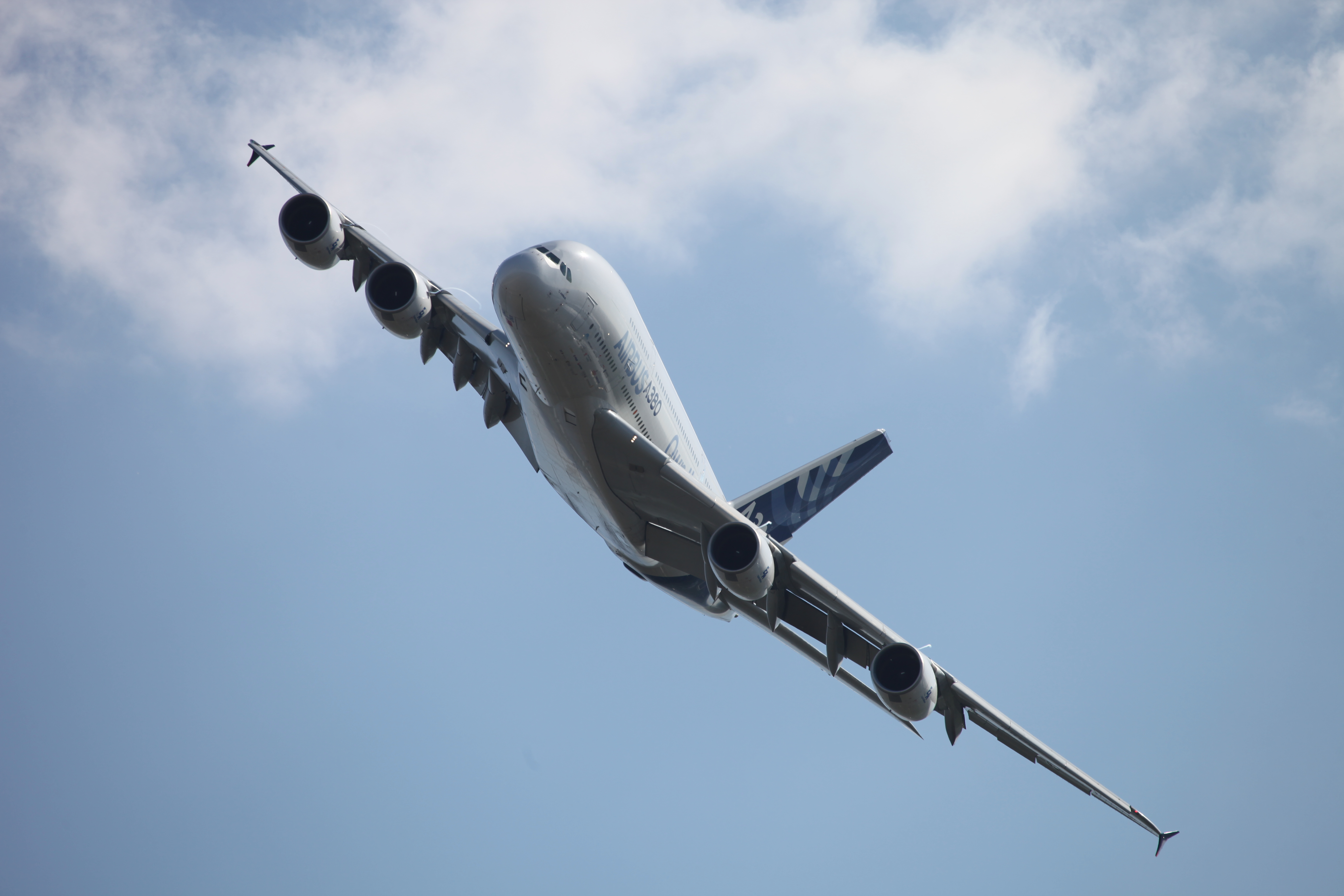 Airbus A-380